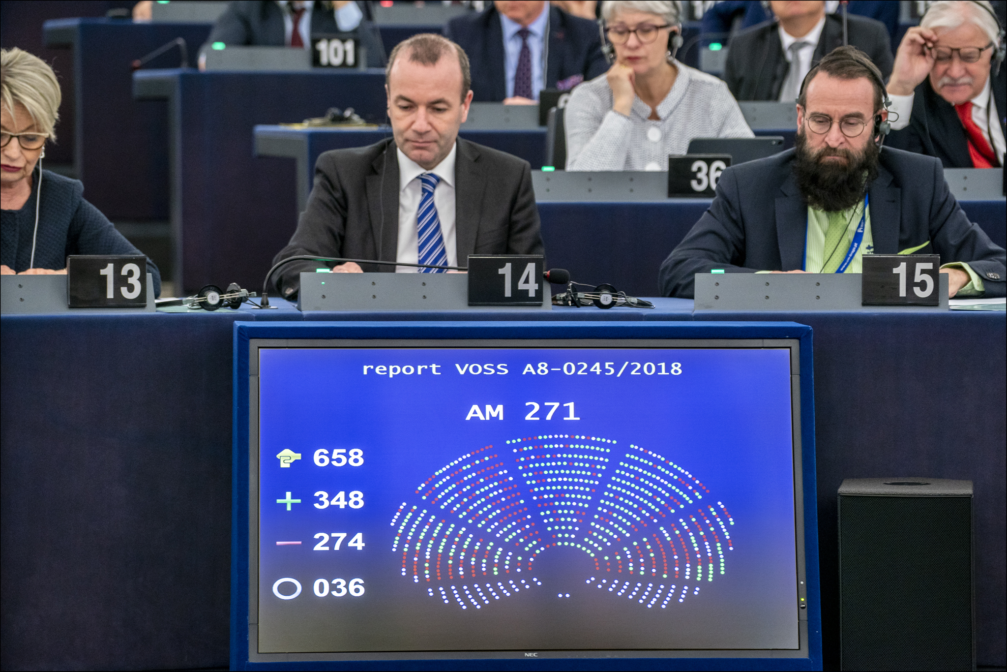 To read about the topic, check out compilation here: This photo is free to use under Creative Commons license CC-BY-4.0 and must be credited: "CC-BY-4.0: © European Union 2019 – Source: EP". No model release form if applicable. For bigger HR files please contact: webcom-flickr(AT)